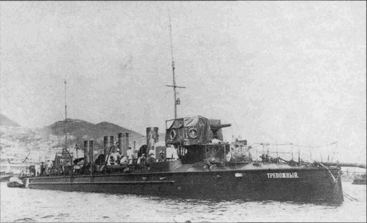 Imperial Russian destroyer Trevozhnyy.